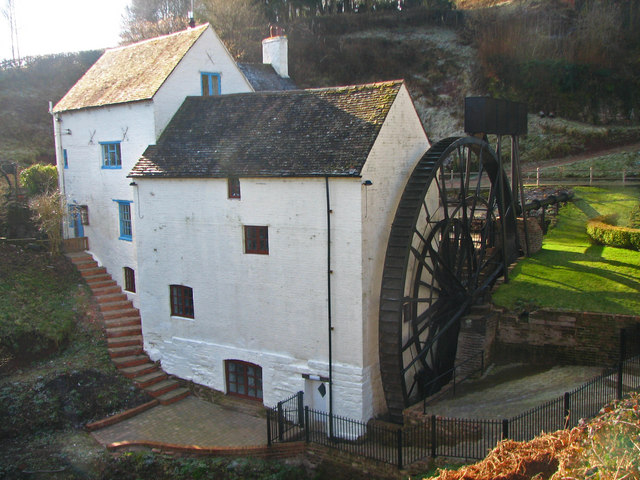 Daniel's Mill The present building dates from Victorian times, but milling has been carried out on this site long before the nineteenth century. The 38ft diameter wheel is clearly seen from this angle